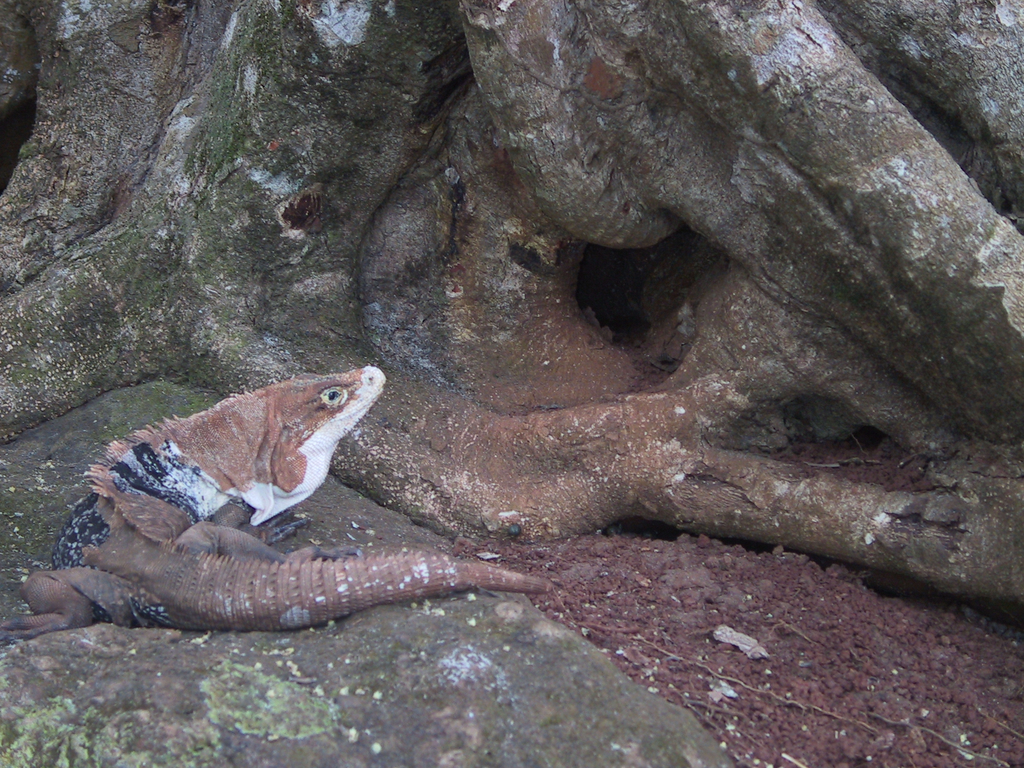 Description: Ctenosaura similis, sitting in front of his tree cave, Costa Rica (Manuel Antonio) -2- Source: self made Date: 2002-19-03 Author = --Ruestz 14:33, 6 April 2006 (UTC)